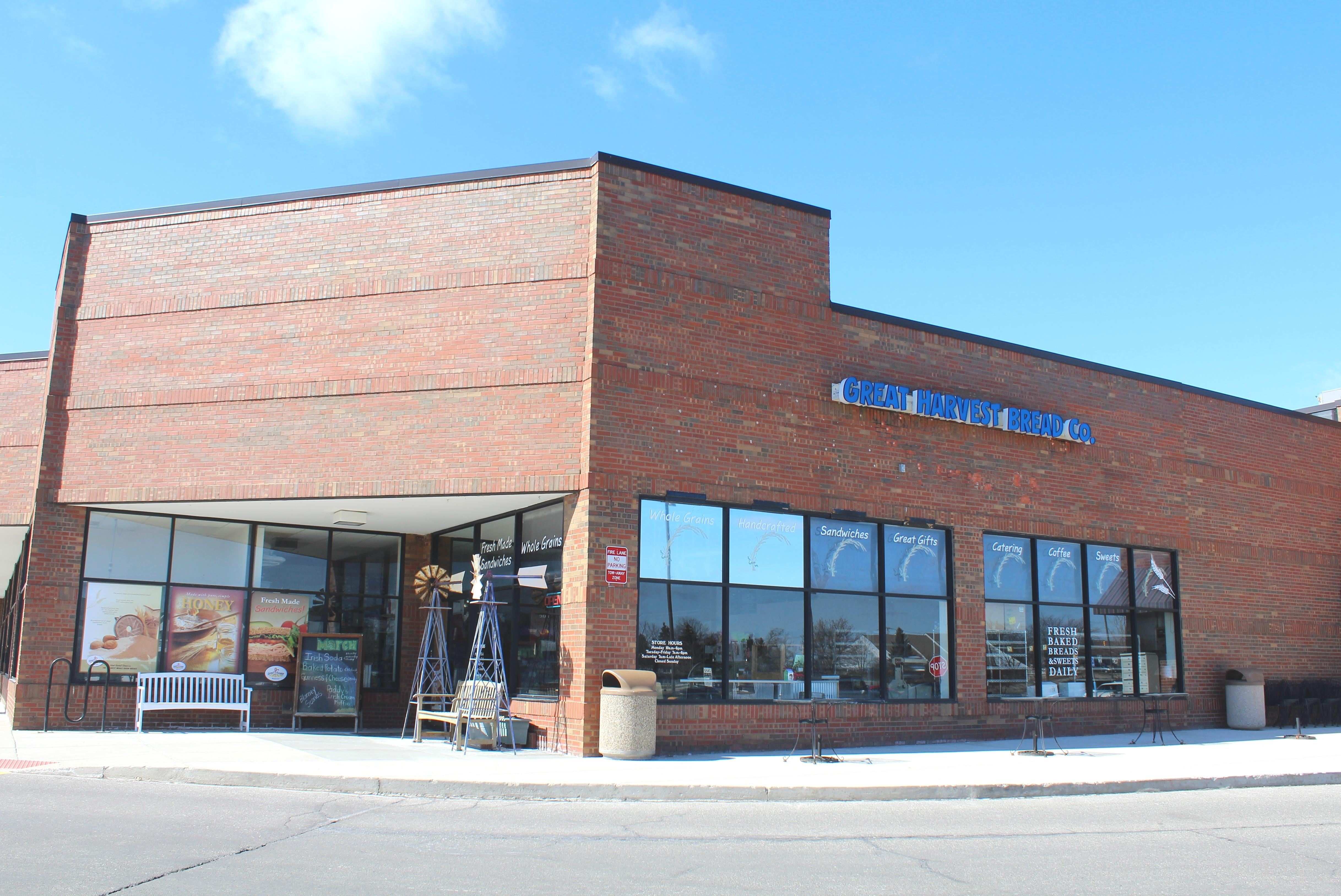 Great Harvest Bread Company store, 2220 South Main Street, Ann Arbor, Michigan.